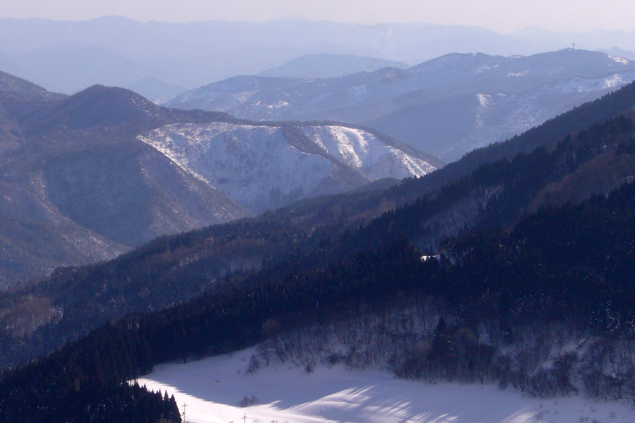 Hyonosen-Ushiroyama-Nagisan Quasi-National Park from Hyonosen International Ski resort in Yabu, Hyogo prefecture, Japan